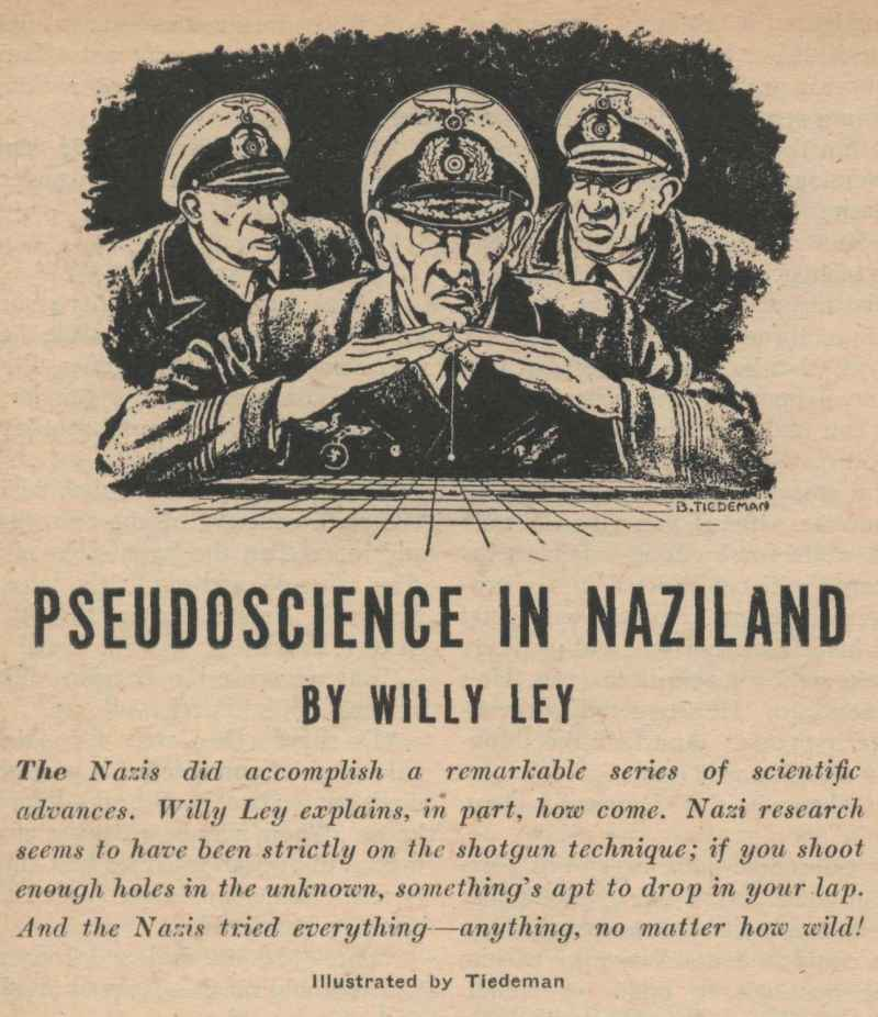 Artwork by B. Tiedeman for Willy Ley's essay, "Pseudoscience in Naziland", Astounding Science Fiction, May 1947, p. 90.